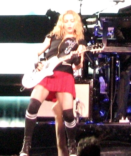 Picture of the concert